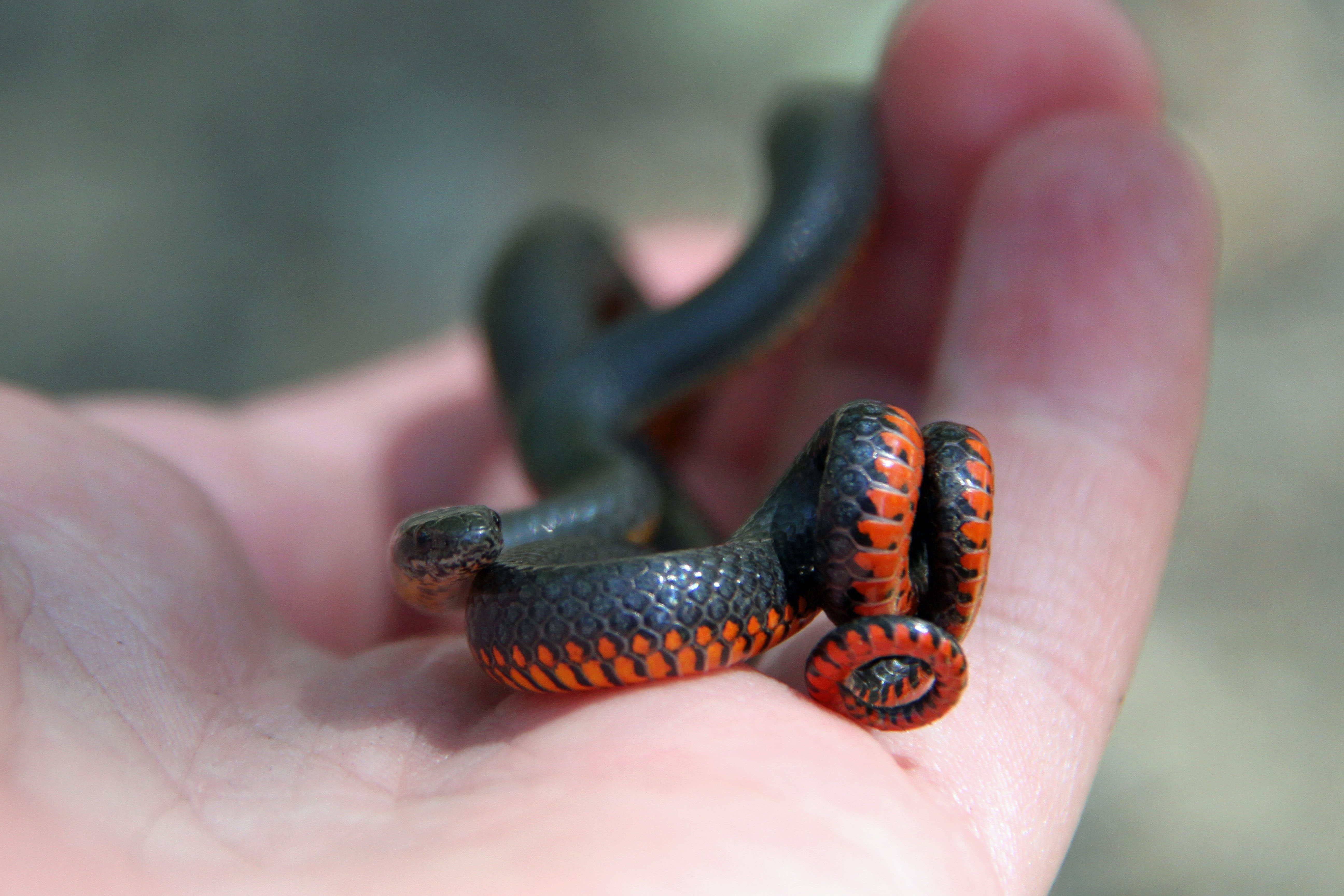 Ring-necked Snake (Diadophis punctatus)